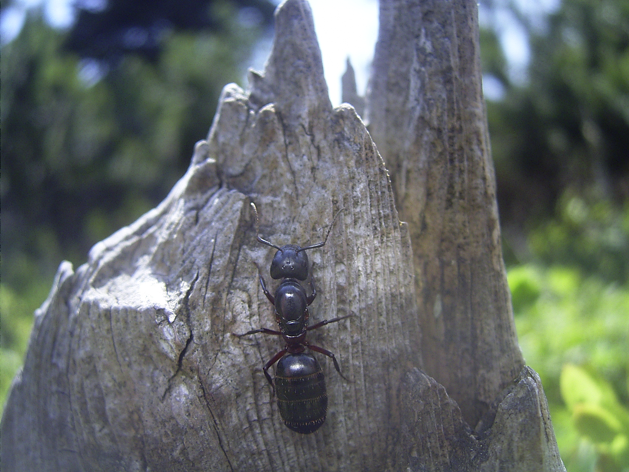 Camponotus herculeanus, Rax, Austria, June 2006.